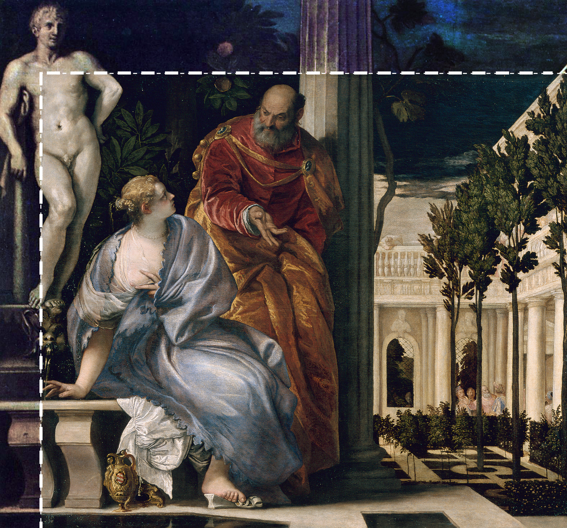 Bathsheba at Bath, Paolo Veronese, oil on canvas, 191 cm × 224 cm, Fine Arts Museums Lyon.